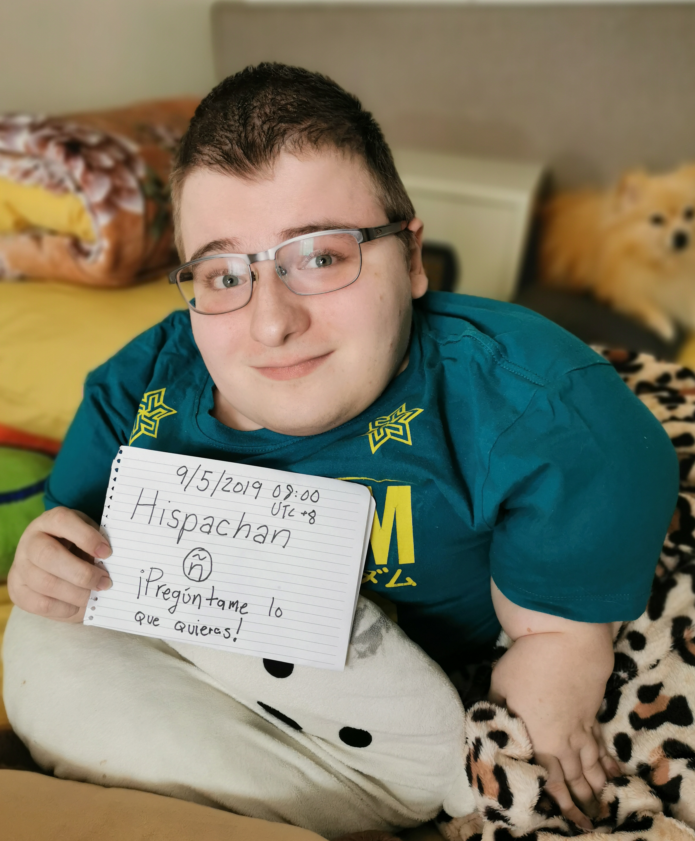 This photo was made by putting a cell phone camera on a tripod. It is therefore a selfie. I am the person in the photo. "[made] when I still lived in Quezon City for verification on an "ask me anything" on another site, a Spanish language imageboard. [Hispachan]"[1]